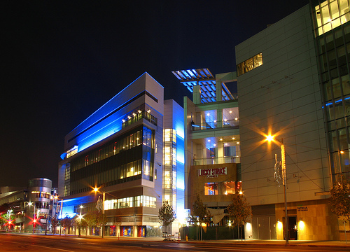 L.A. Live development in Downtown Los Angeles